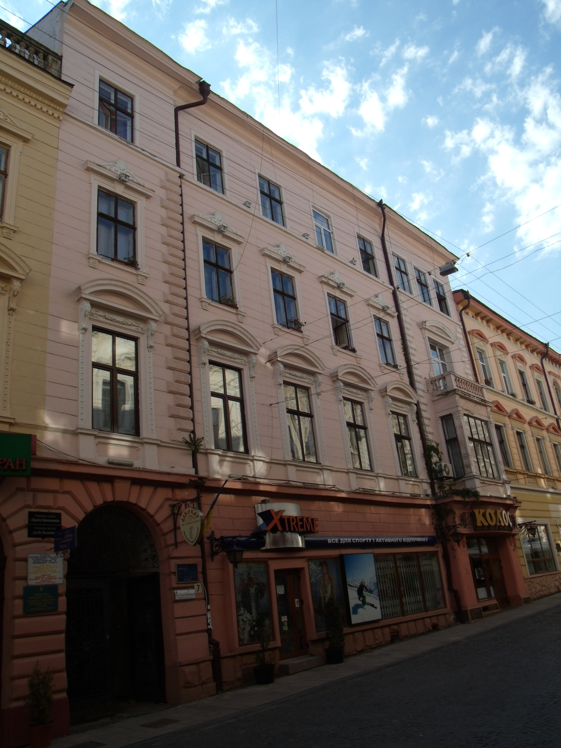 Chernivtsi, Kobylianska house 7